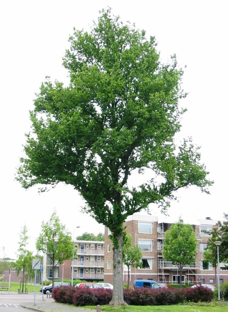 Ulmus hollandica 'Dampieri', bezettingslaan groningen; Photo by R. Nijboer